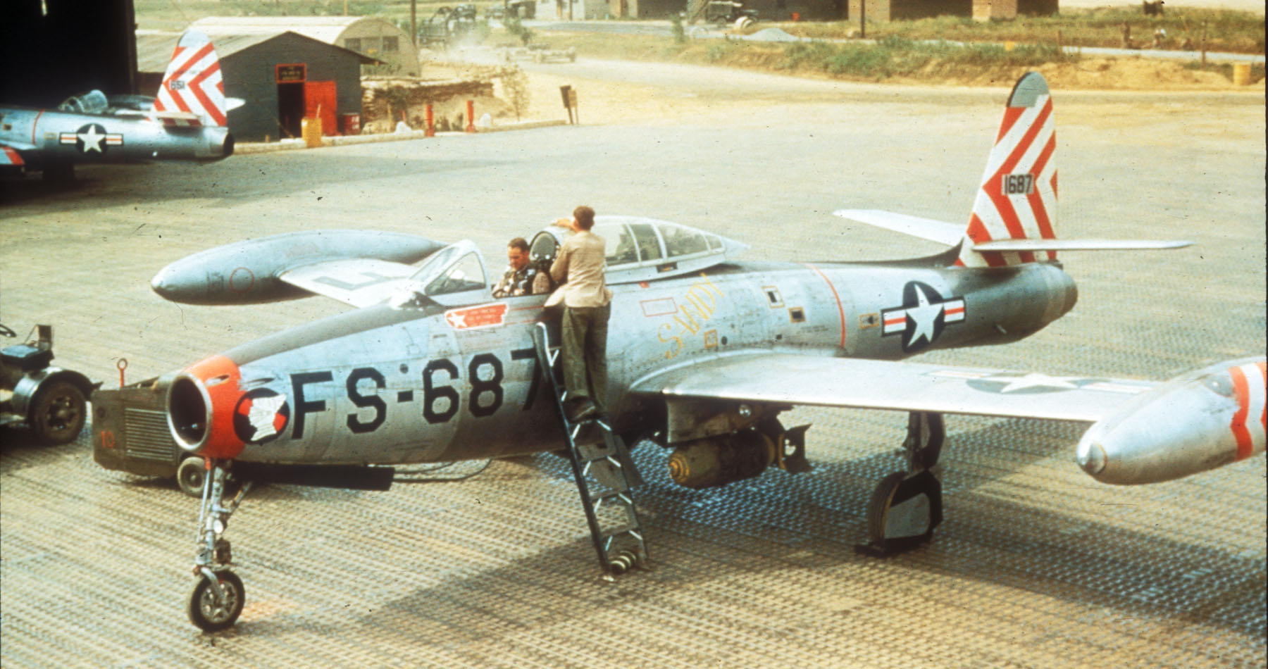 A U.S. Air Force F-84 crew chief cleans the canopy as the pilot straps in before a mission. The Republic F-84E-30-RE Thunderjet (s/n 51-687) was assigned to the 9th Fighter-Bomber Squadron, 49th Fighter-Bomber Wing, and was shot down by MiG-15s on 9 September 1952. The pilot Captain Warren O'Brien is missing in action.